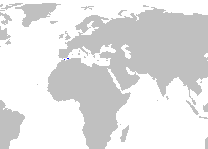 Distribution map for Galeus atlanticus